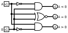 One-bit binary full comparator, equality, inequality, greater than, less than. Created using Logisim.